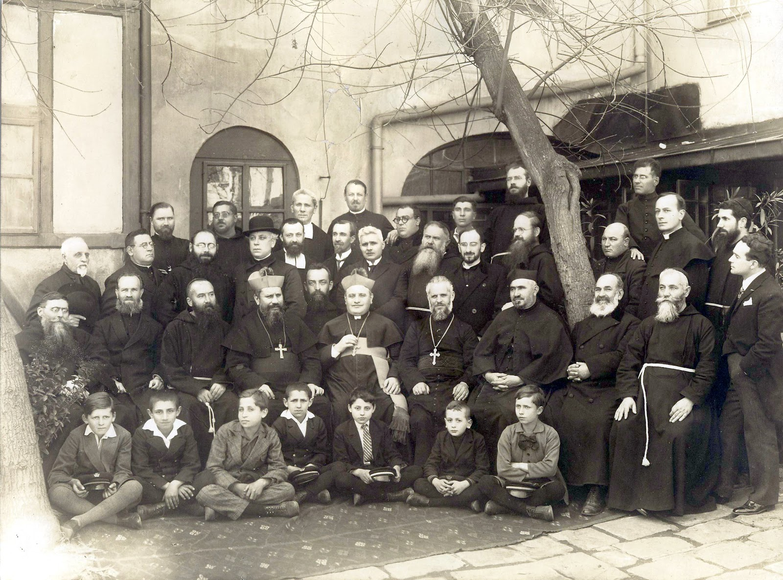 Roncalli, Peev, Kurtev with capuchins and the priests of the Sofia-Plovdiv vicariate